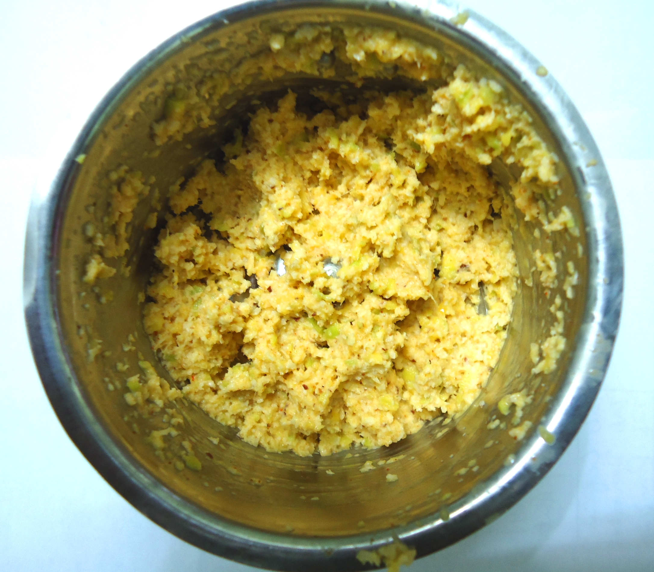 Mango_chutney